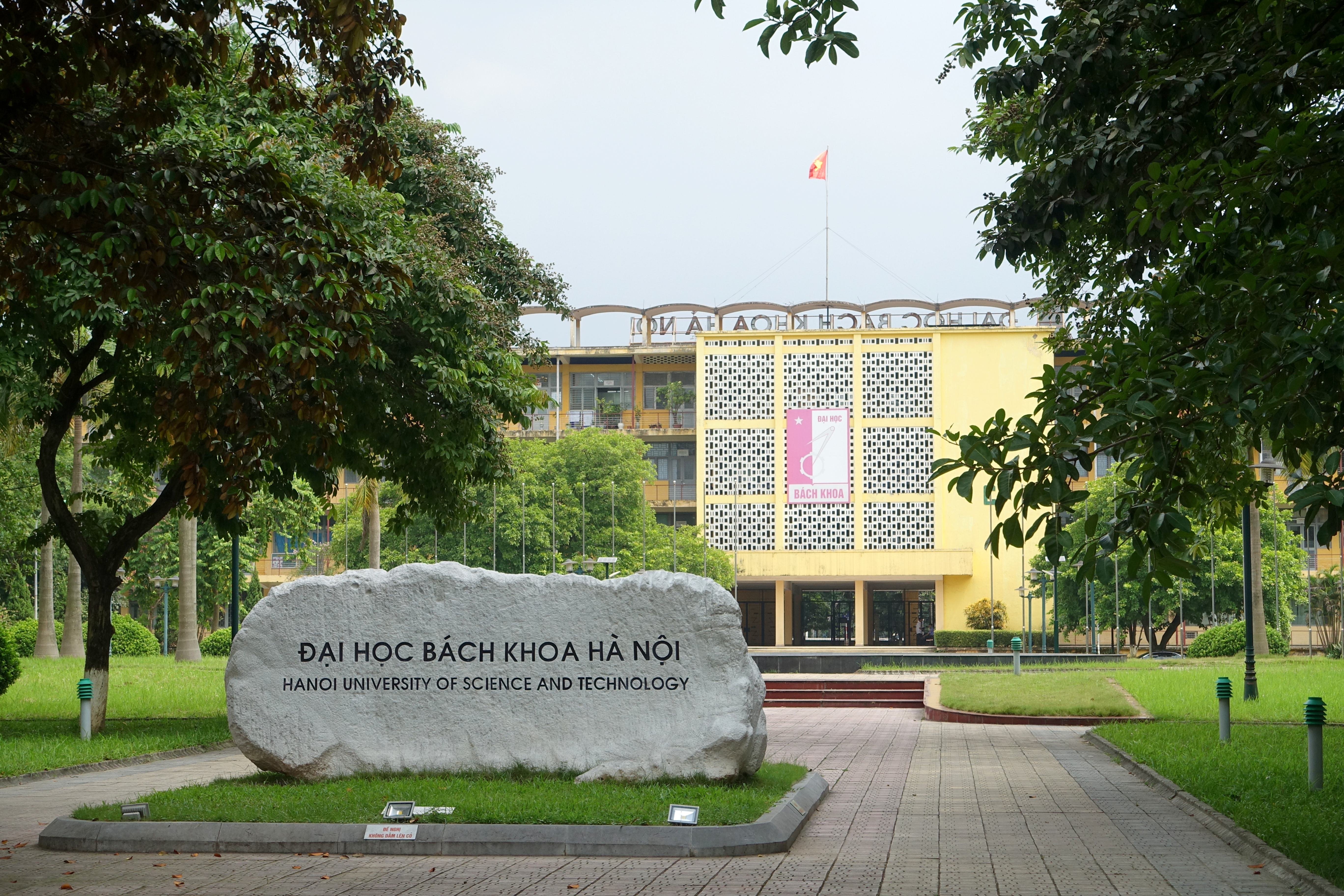 Hanoi University of Science and Technology - Hanoi, Vietnam.